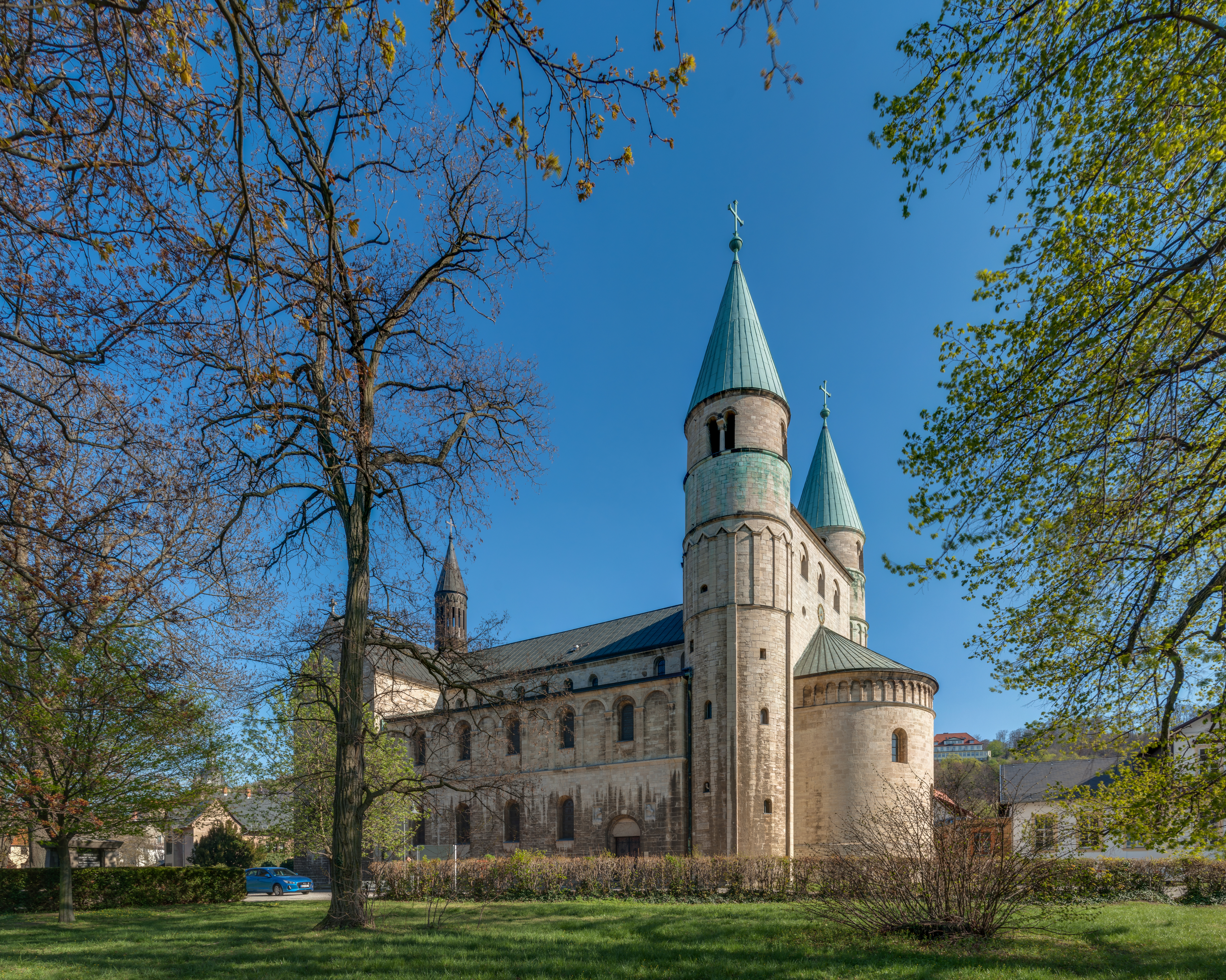 Saint Cyriakus in Gernrode, Saxony-Anhalt/Germany